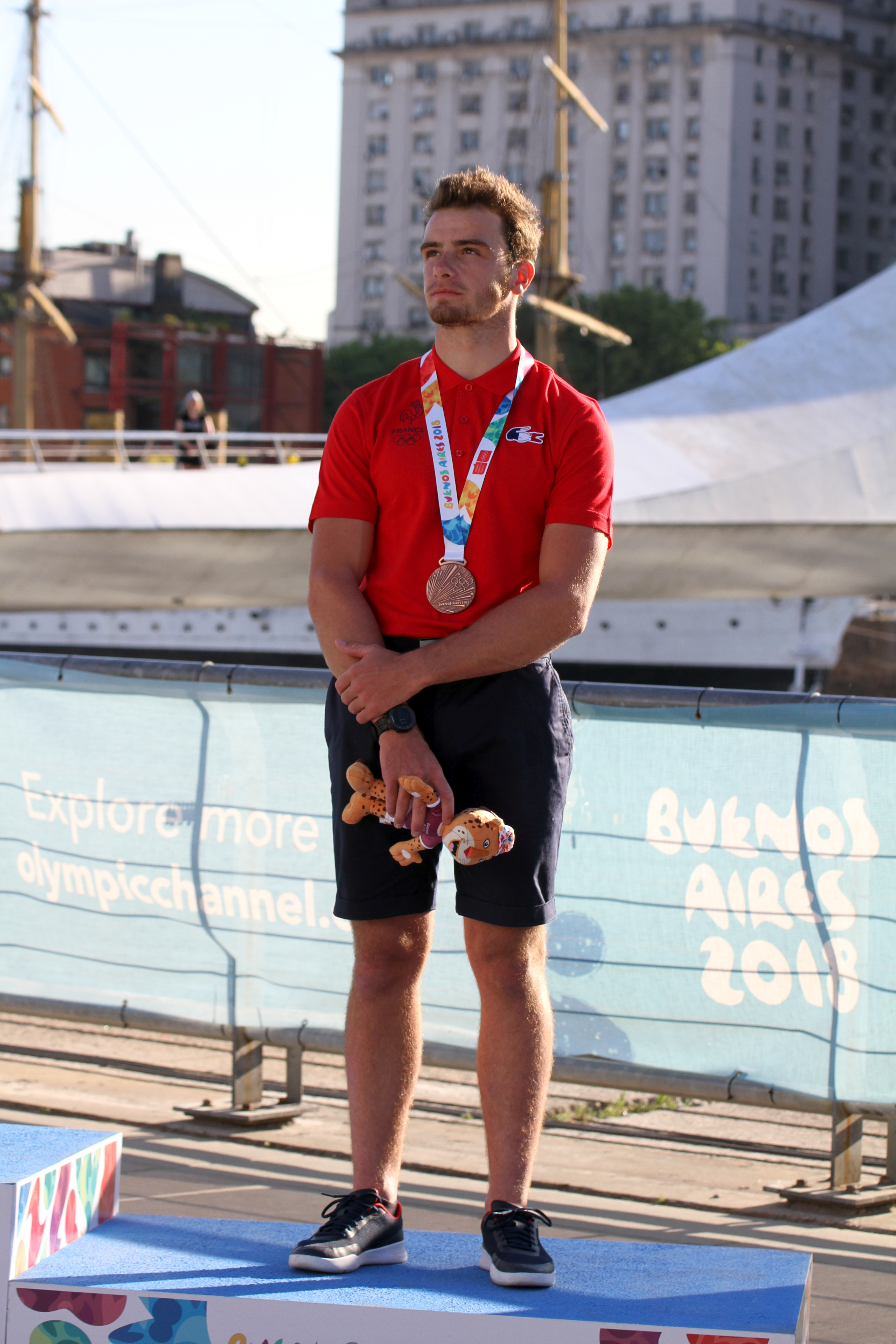 Canoeing at the 2018 Summer Youth Olympics at 16 October 2018 – Boys' K1 slalom Gold Medal Race: Lan Tominc (Slovenia, gold) - Guan Changheng (China, silver) - Tom Bouchardon (France, bronze)